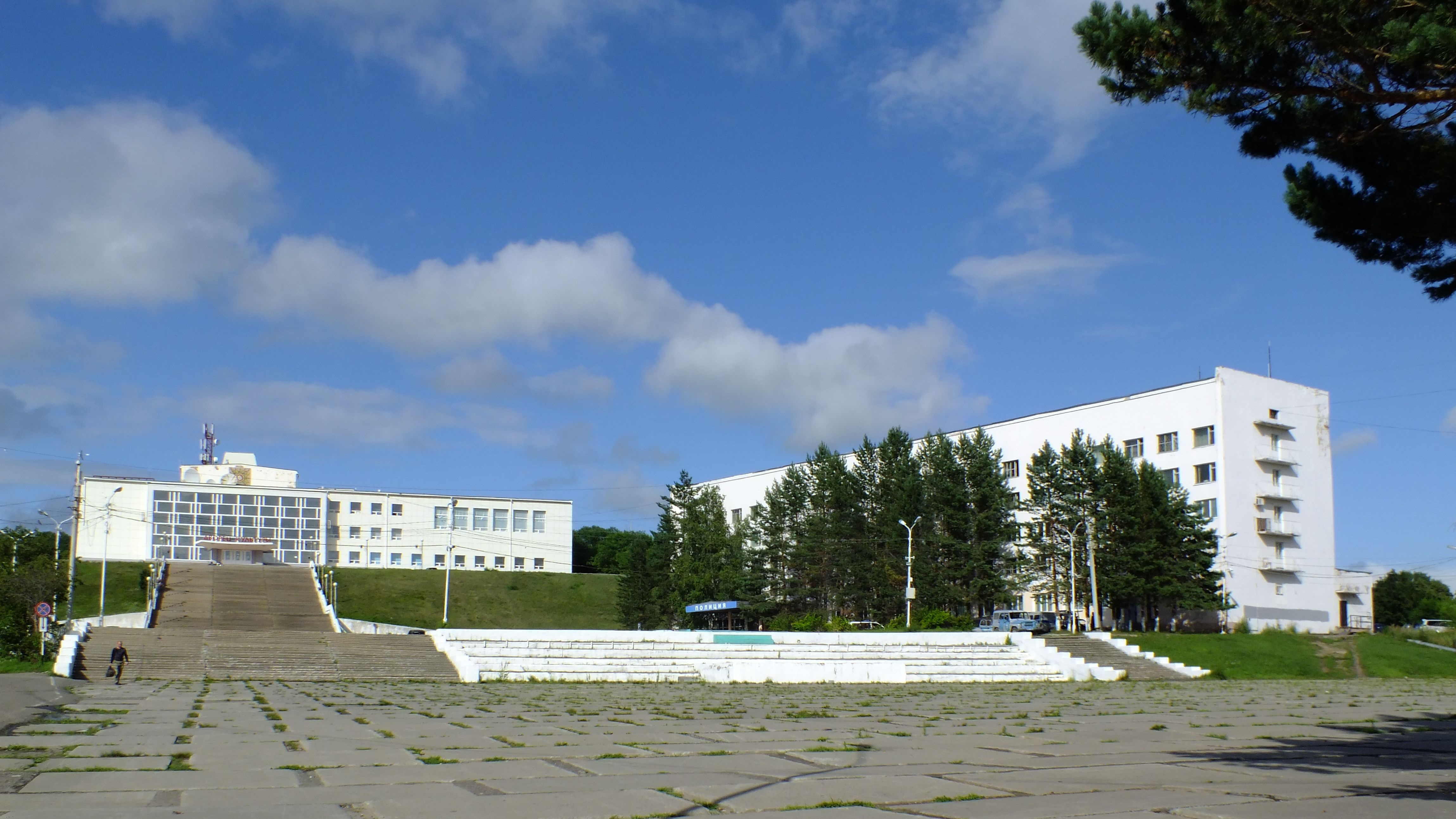 Amursk